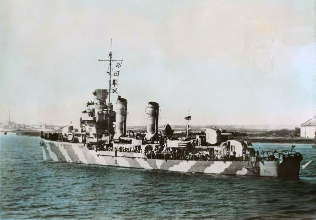 USS Ingraham (DD-444). Note the missing radar antennae, which were probably retouched by the wartime censor.